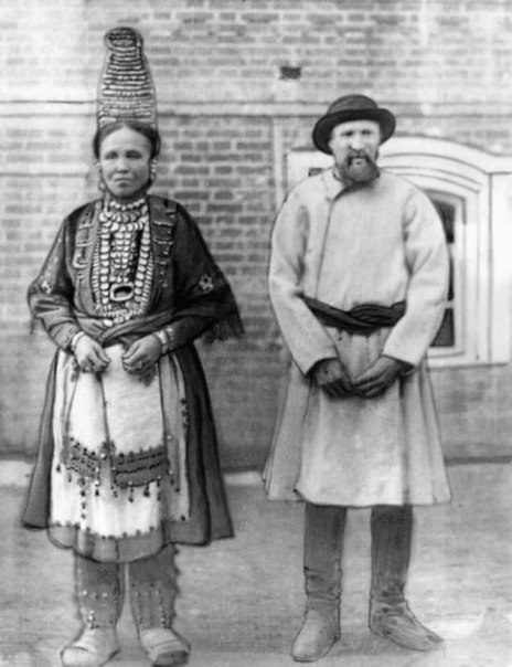 Mari peoples national costumes. The woman in shurka headgear